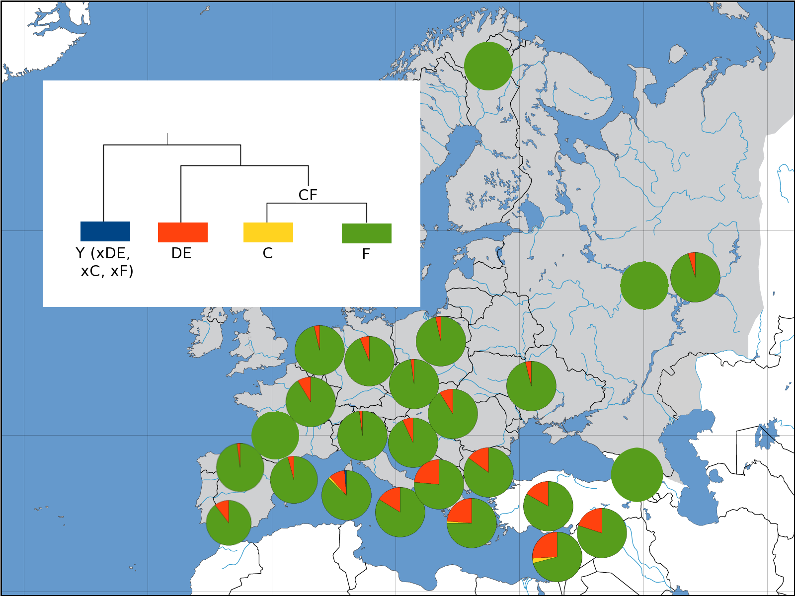 Y chromosome haplogroup F from Semino et al. 2000. Original map Europe location.png